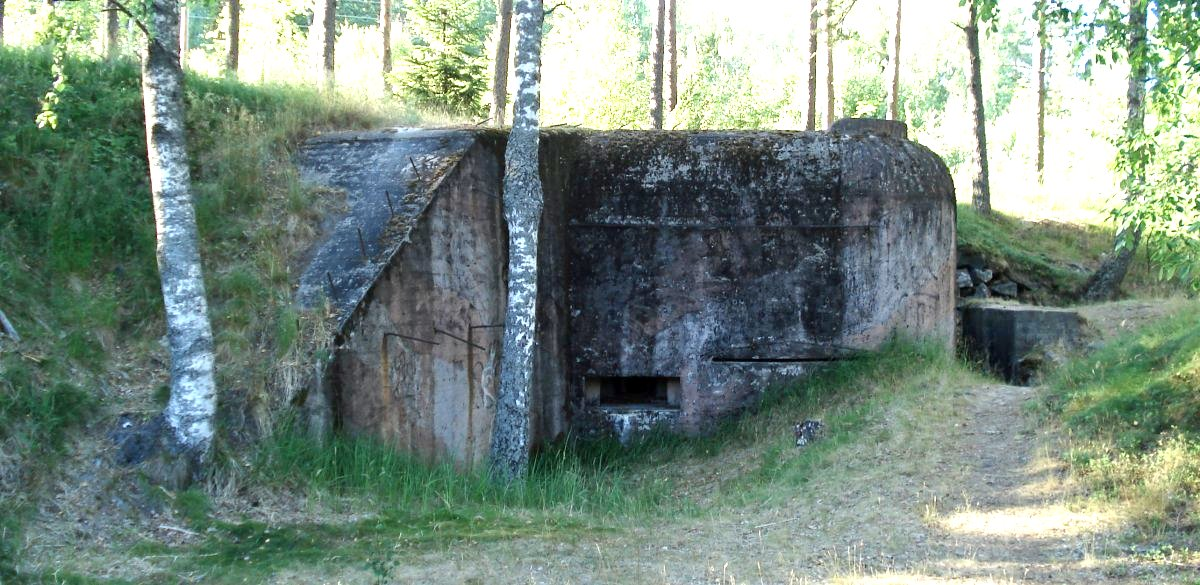 Harparskog Line Bunker in Finland info